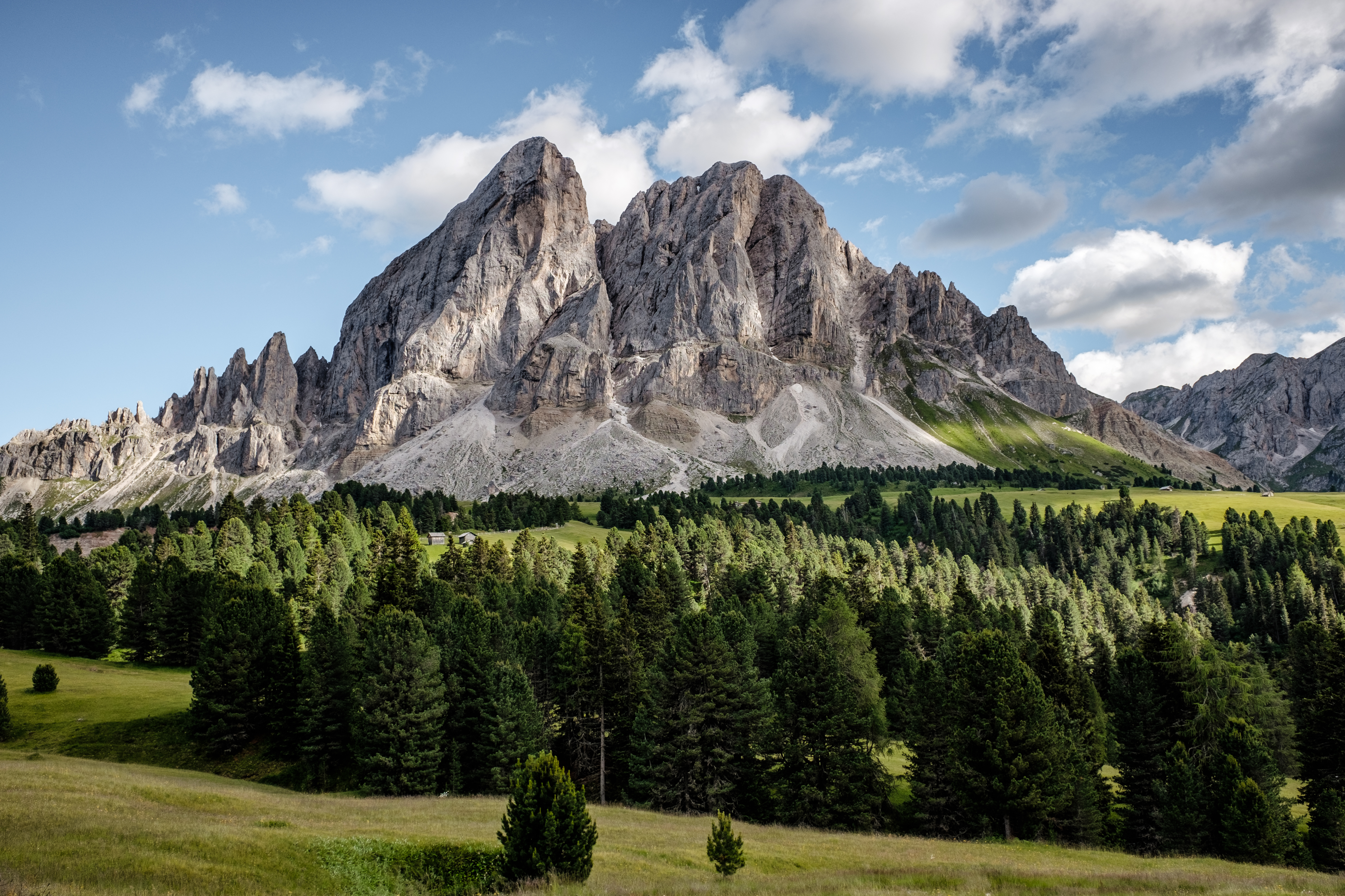 San Martino In Badia, Italy